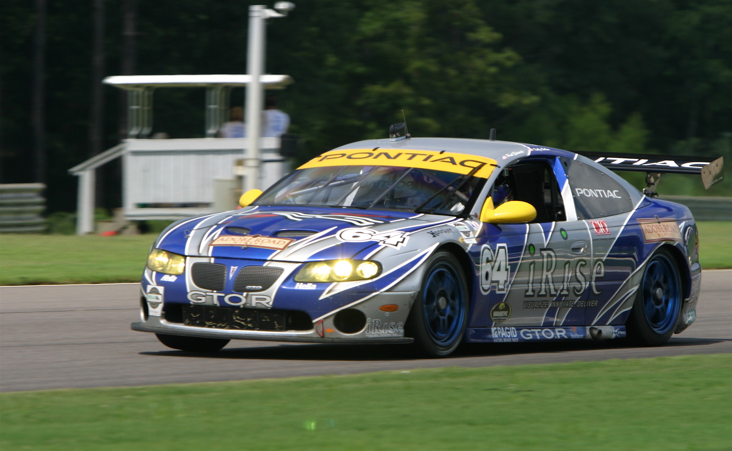 The Racer's Group Pontiac GTO at the 2006 Porsche 250 at Barber Motorsports Park